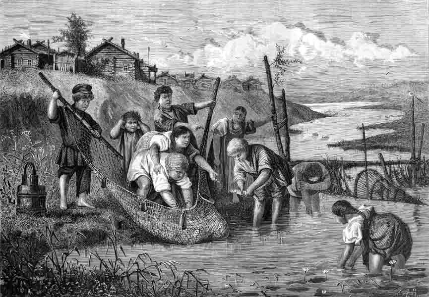 Children fishermen. Engraving by A.I. Zubchaninov, drawing by A.P. Koverznev, 1875. From the series «The Peasant Life». Vsemirnaya Illustration Magazine (The World Illustration Magazine), 1875. V. XIV. - S. Petersburg: Hermann Hoppe Publishing, 1875